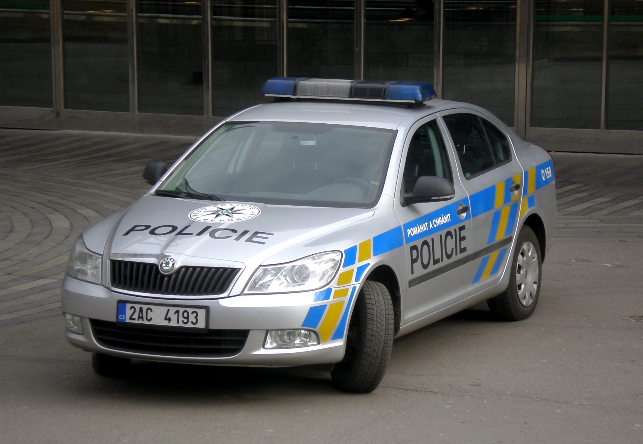 Police automobiles in the Czech Republic in Prague, Škoda